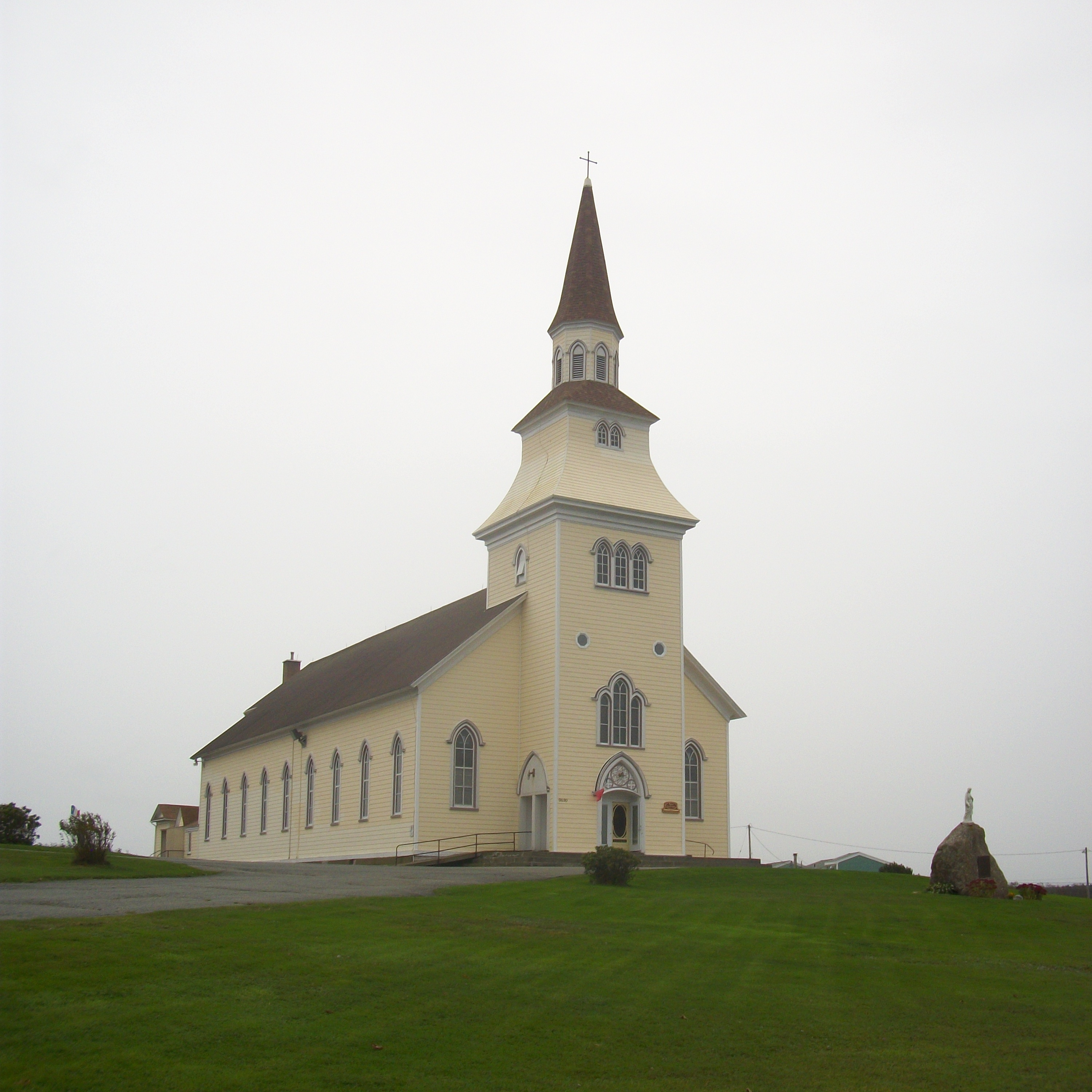 Église Sacré Coeur de Saulnierville Church in Saulnierville, District of Clare, Digby County, NS